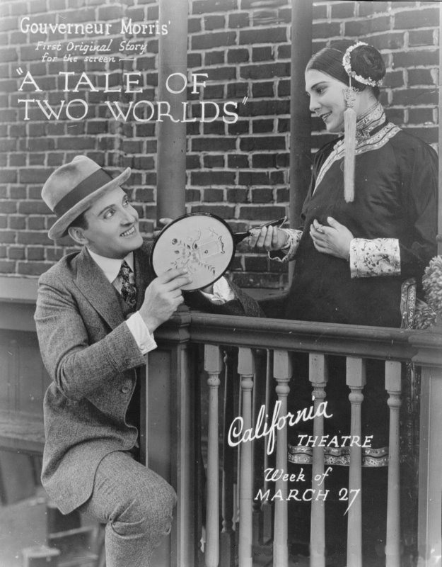 A Tale of Two Worlds is a surviving 1921 silent film drama produced and distributed by Goldwyn Pictures and directed by Frank Lloyd. This is a photo advertisement for the film.